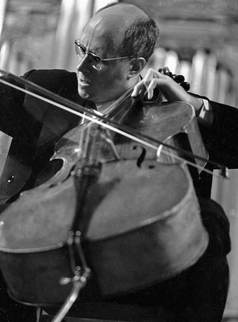 “Mstislav Rostropovich”. Lenin Prize winner Mstislav Rostropovich.